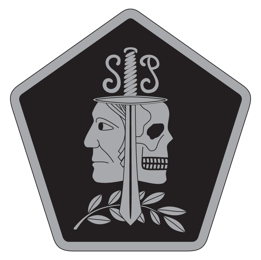 coat of arms of the 2nd Infantry Brigade of the Estonian Army.